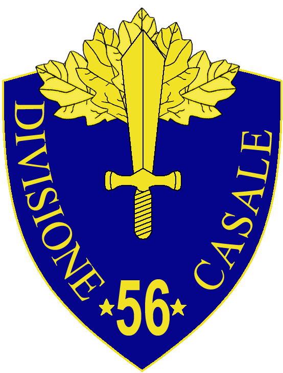 56a Divisione Fanteria Casale insignia, Regio Esercito, Italy, WWII